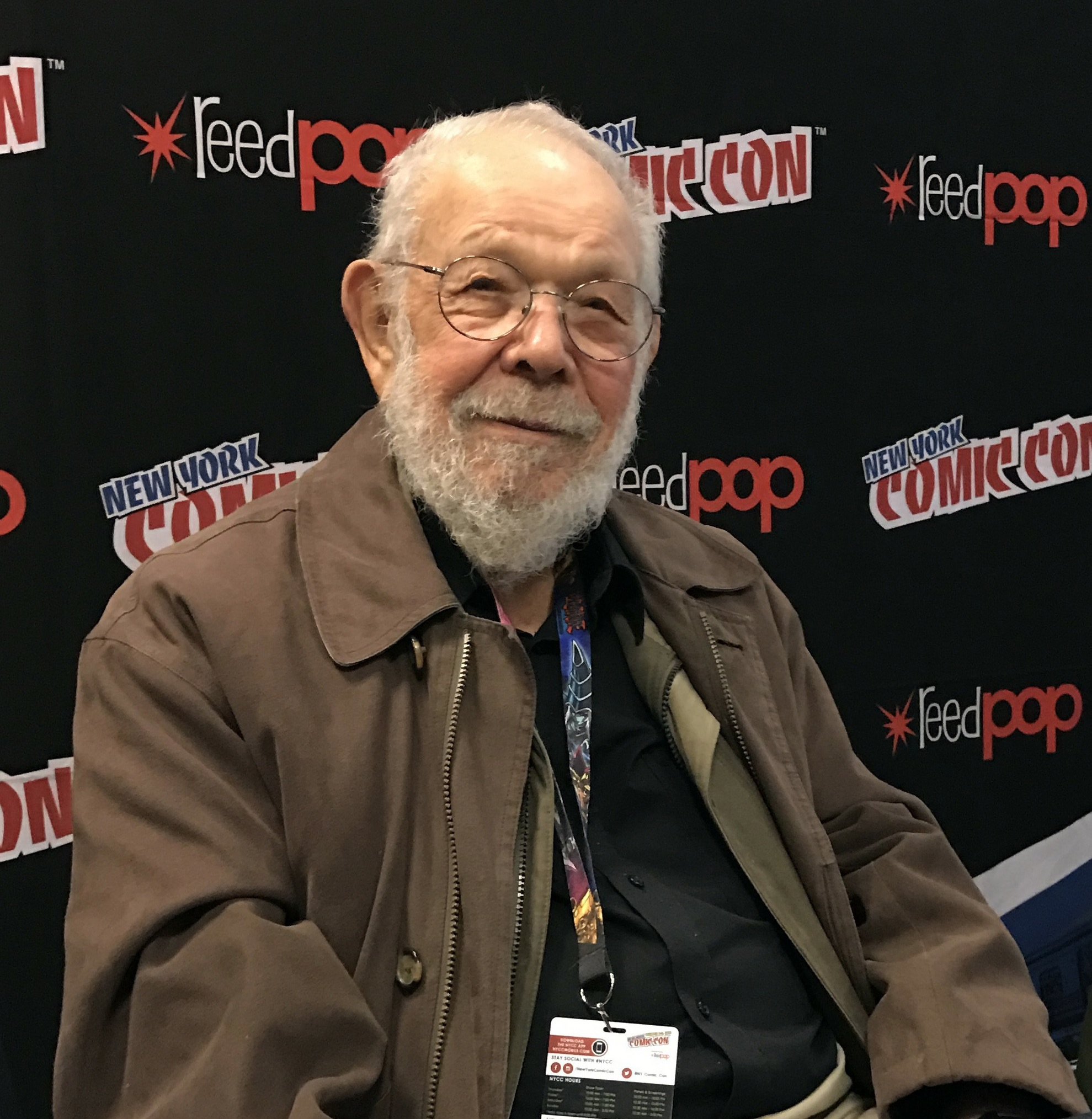 Cartoonist Al Jaffee following a discussion panel dedicated to Trump magazine on Sunday, October 9, 2016 at the Jacob K. Javits Convention Center in Manhattan, Day 4 of the 2016 New York Comic Con.. This photo was created by Luigi Novi. It is not in the public domain, and use of this file outside of the licensing terms is a copyright violation.